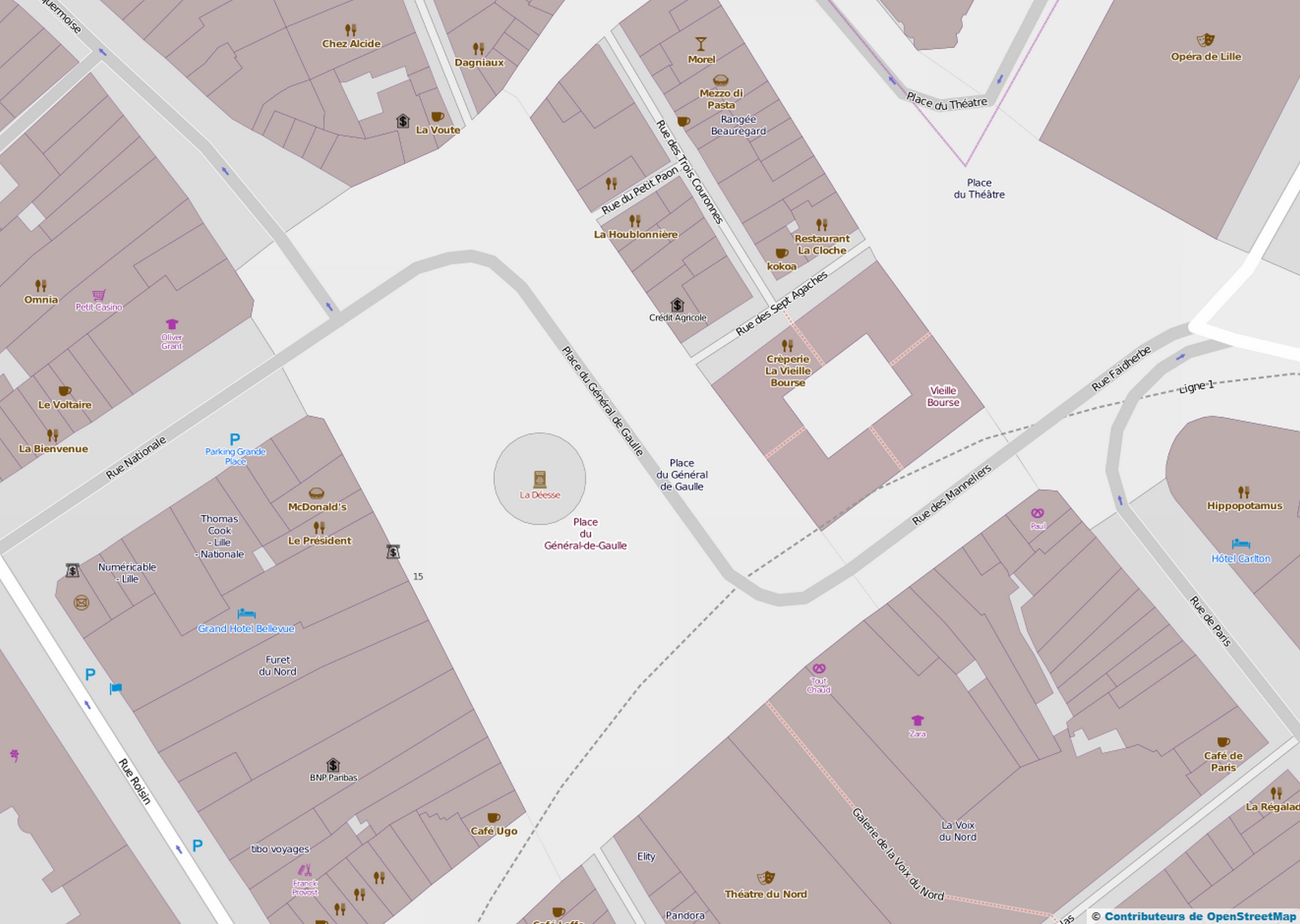 Carte de la place du Général-de-Gaulle. This map of Lille, France was created from OpenStreetMap project data, collected by the community. This map may be incomplete, and may contain errors. Don't rely solely on it for navigation.